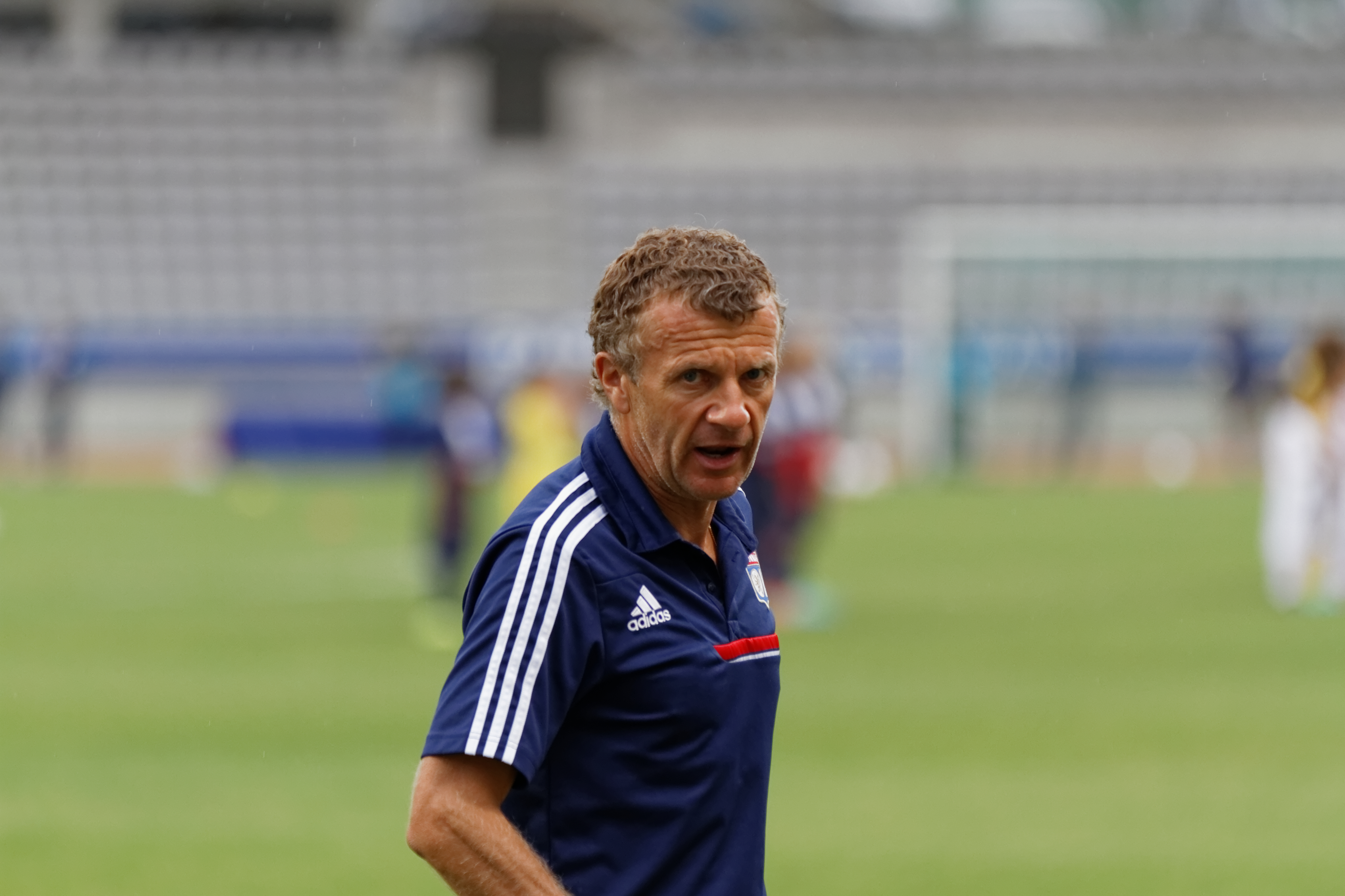 PSG-Lyon, September 29th, 2013.